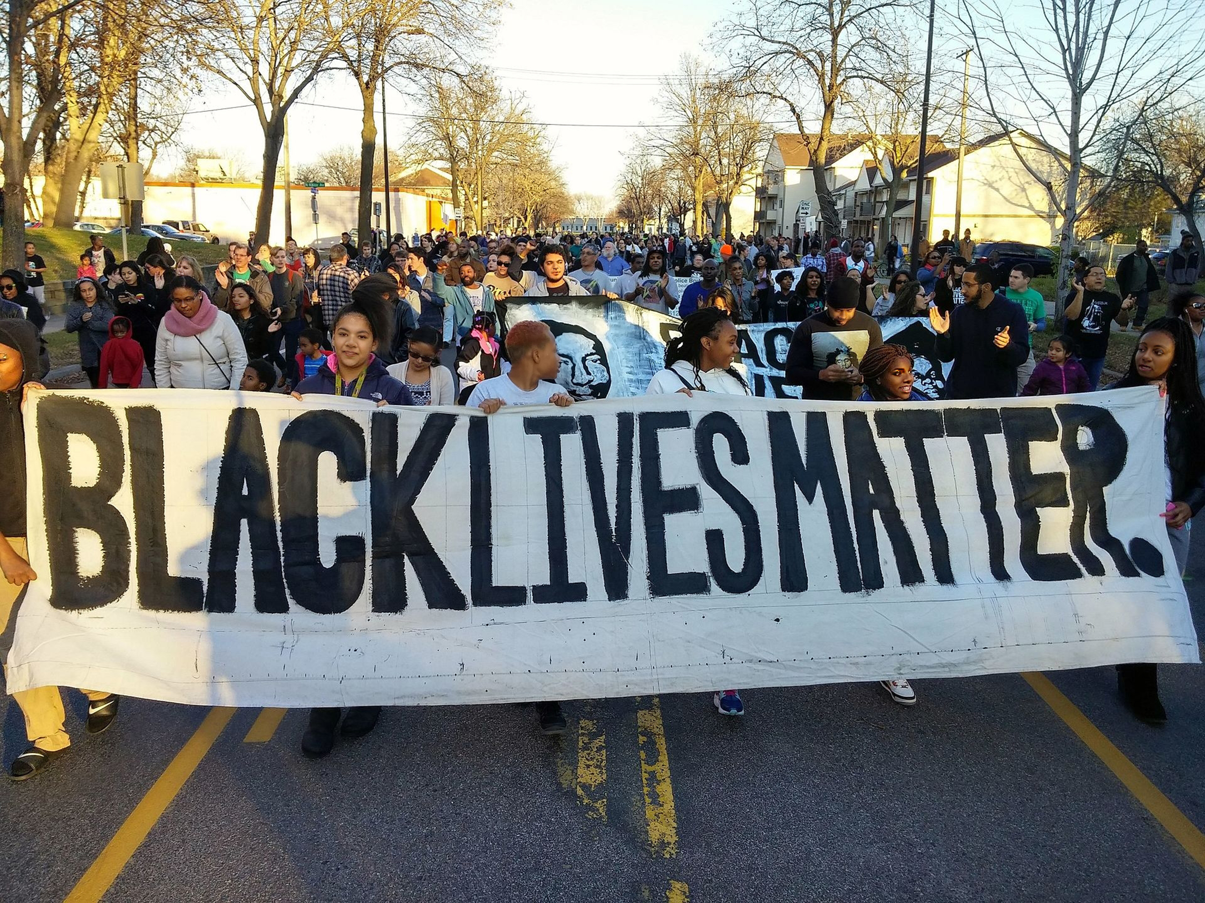 Minneapolis, Minnesota November 15, 2015, 2015 The morning of November 15, 2015 Jamar Clark was shot by Minneapolis Police. Neighbors say that Jamar was handcuffed while shot and that the police threatened residents to leave the scene immediately after the incident. Protesters met at the site of the shooting and marched to the 4th police precinct building. Mayor Betsy Hodges was at the Urban League a couple blocks away, but most of the protesters didn't want to go inside. 2015-11-15 This is licensed under a Creative Commons Attribution License. Give attribution to: Fibonacci Blue